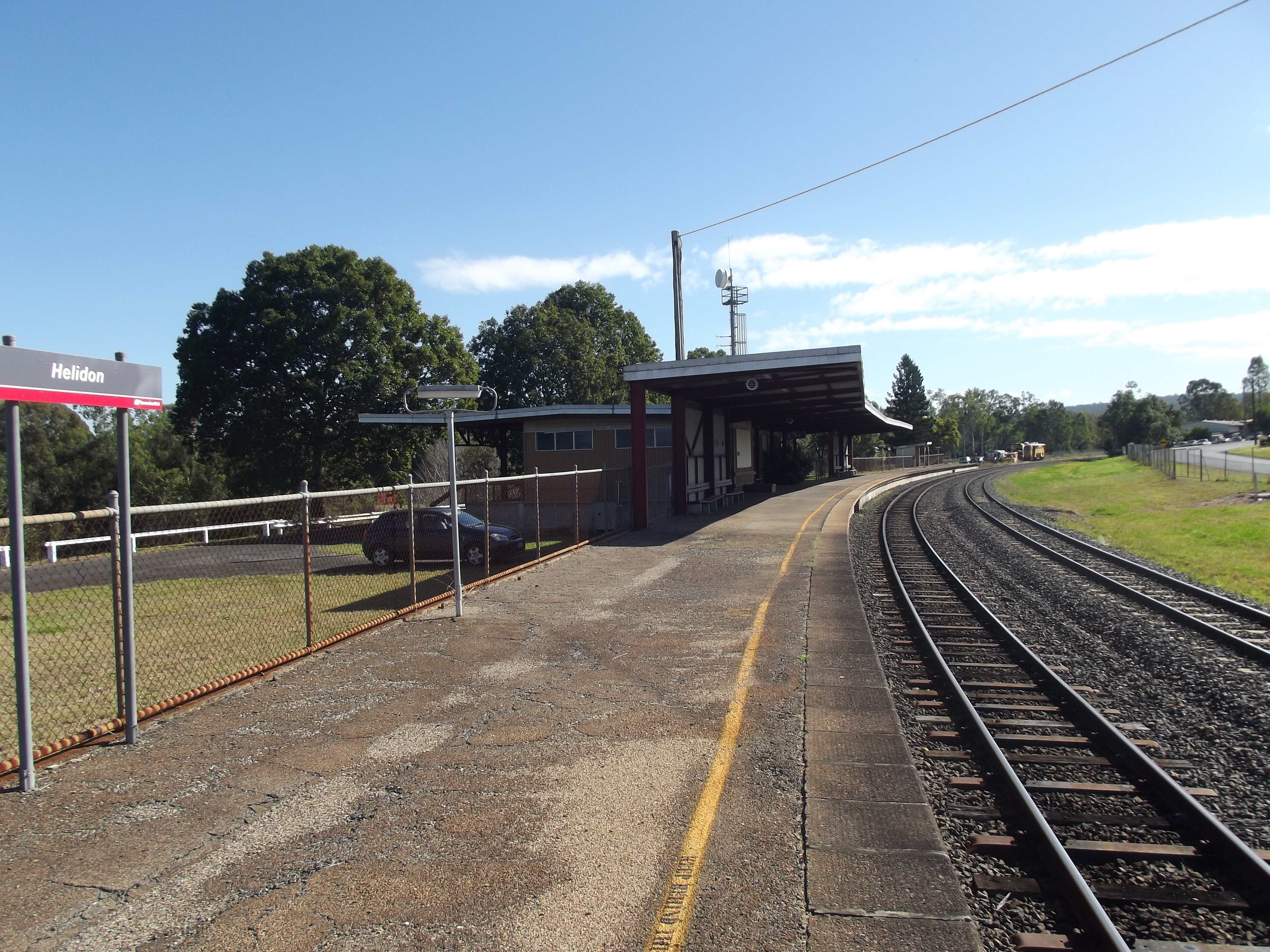 Helidon station on the western line.